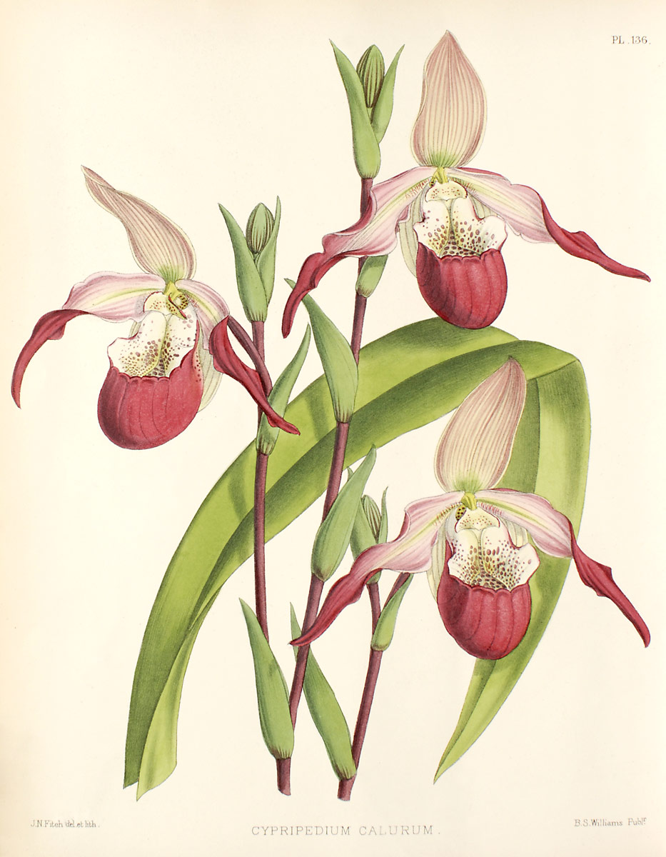 Calurum = Phragmipedium Sedenii = (Phragmipedium schlimii × Phragmipedium longifolium)